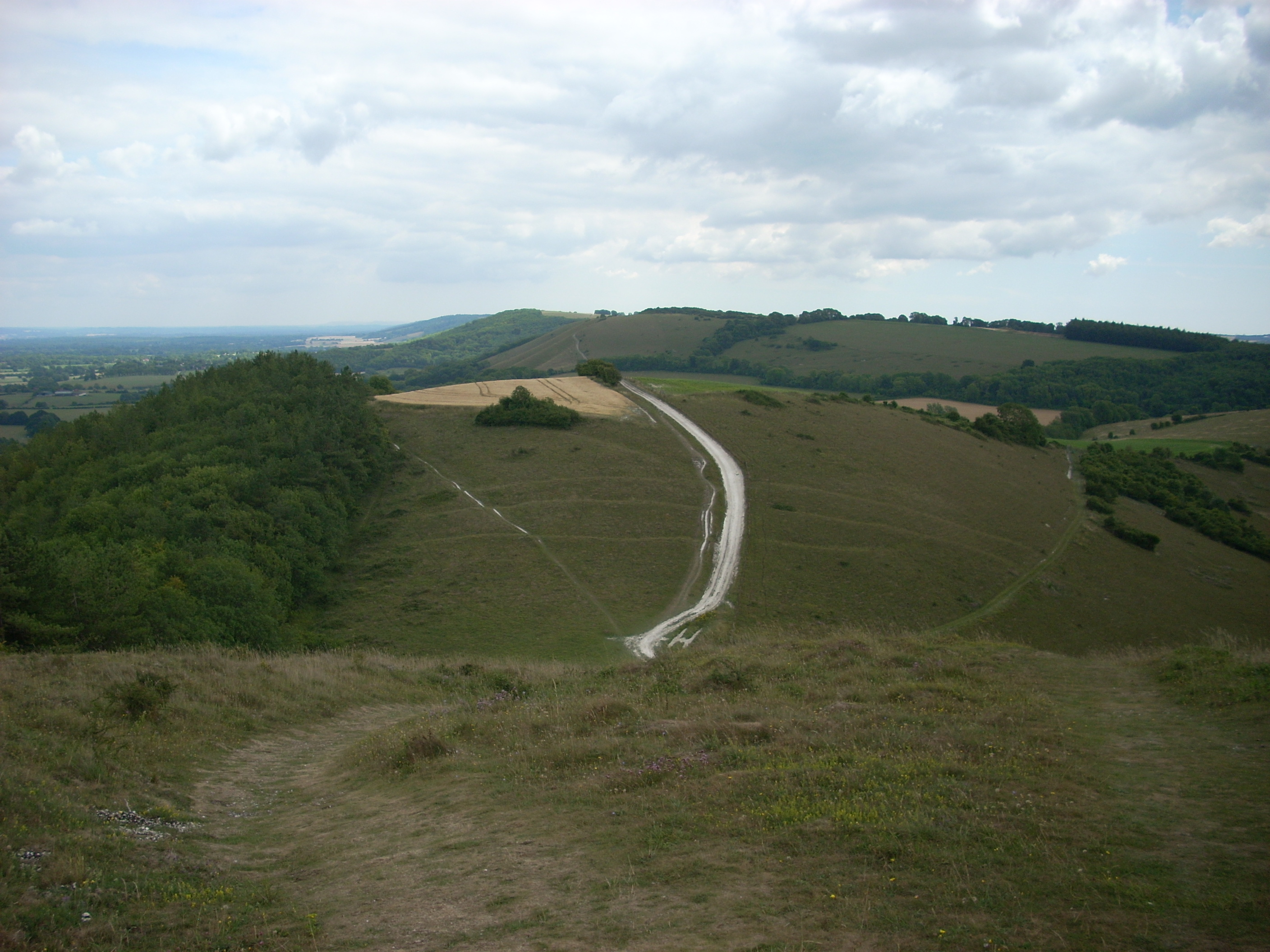 Iron Age cross dykes on Pen Hill in the South Downs, near South Harting, West Sussex, UK.